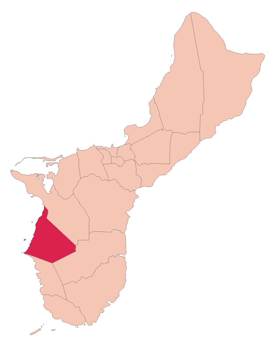 Municipalities of Guam: AgatChamoru: Hågat (Guåhån).